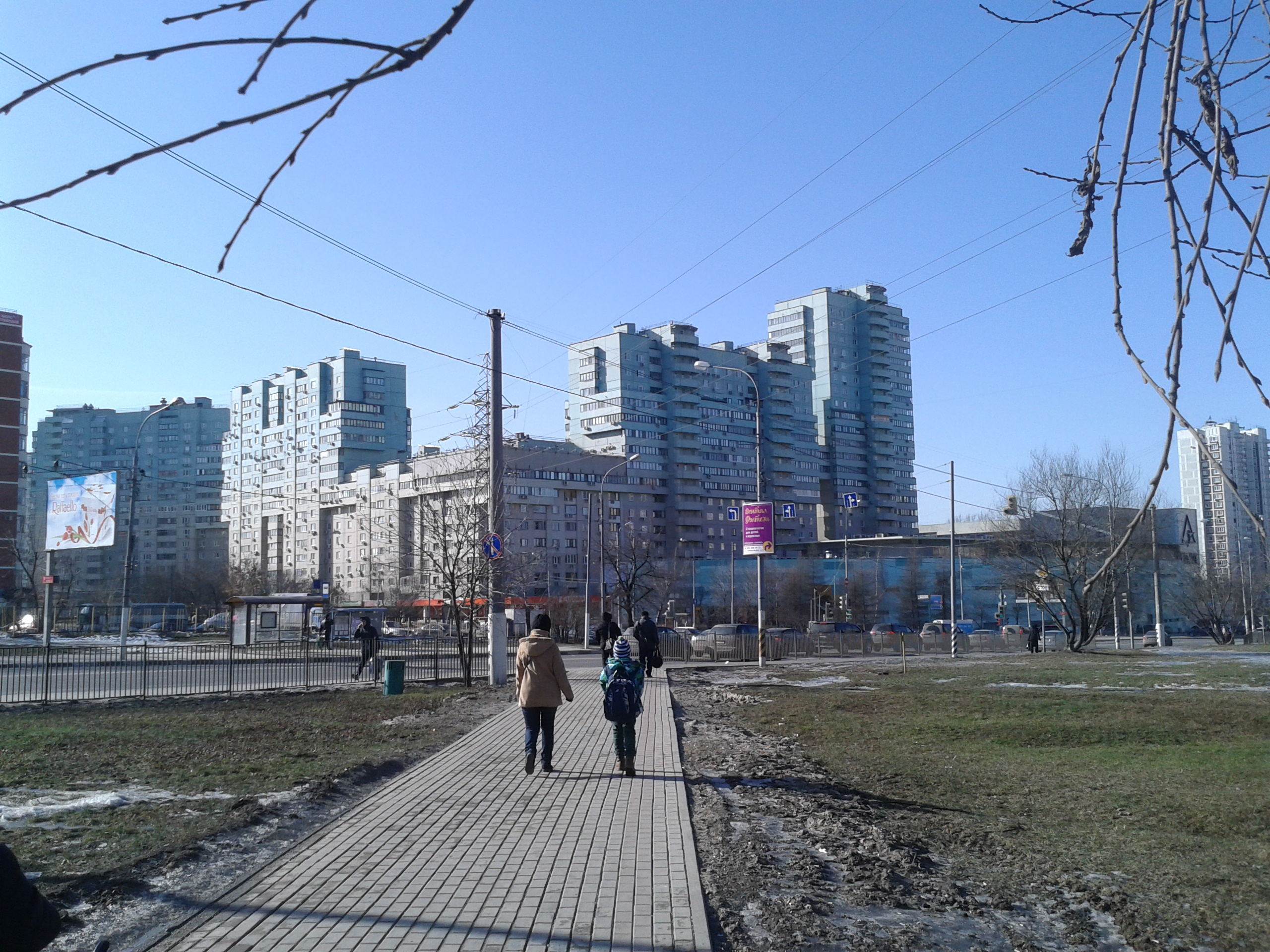 Akademika Pilyugina Street, Moscow, Russia, view from Garibaldi street